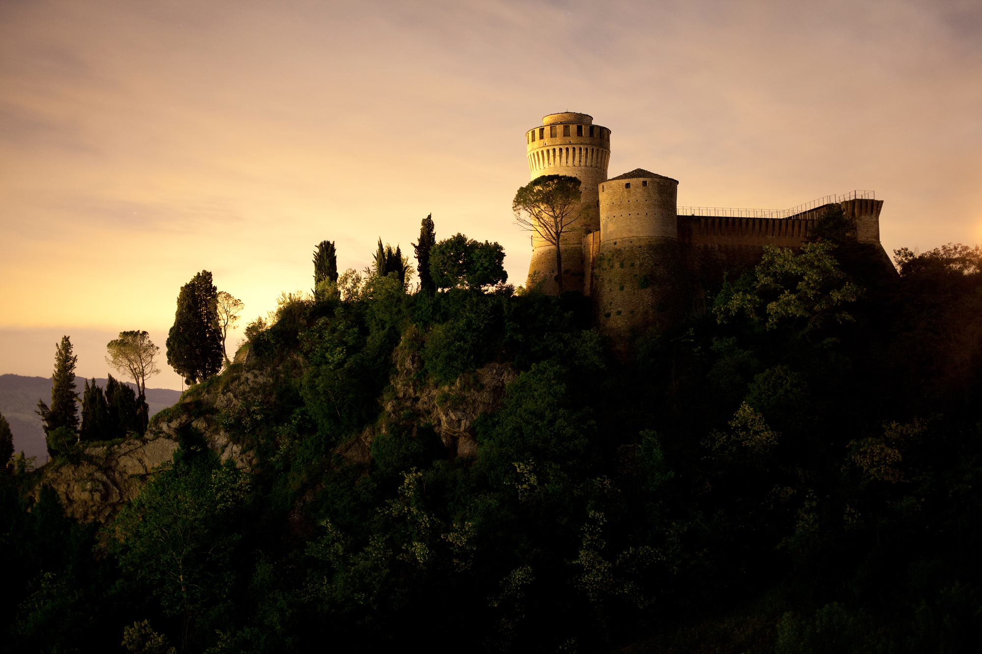 Rocca Manfrediana in Brisighella, Emilia-Romagna This is a photo of a monument which is part of cultural heritage of Italy.